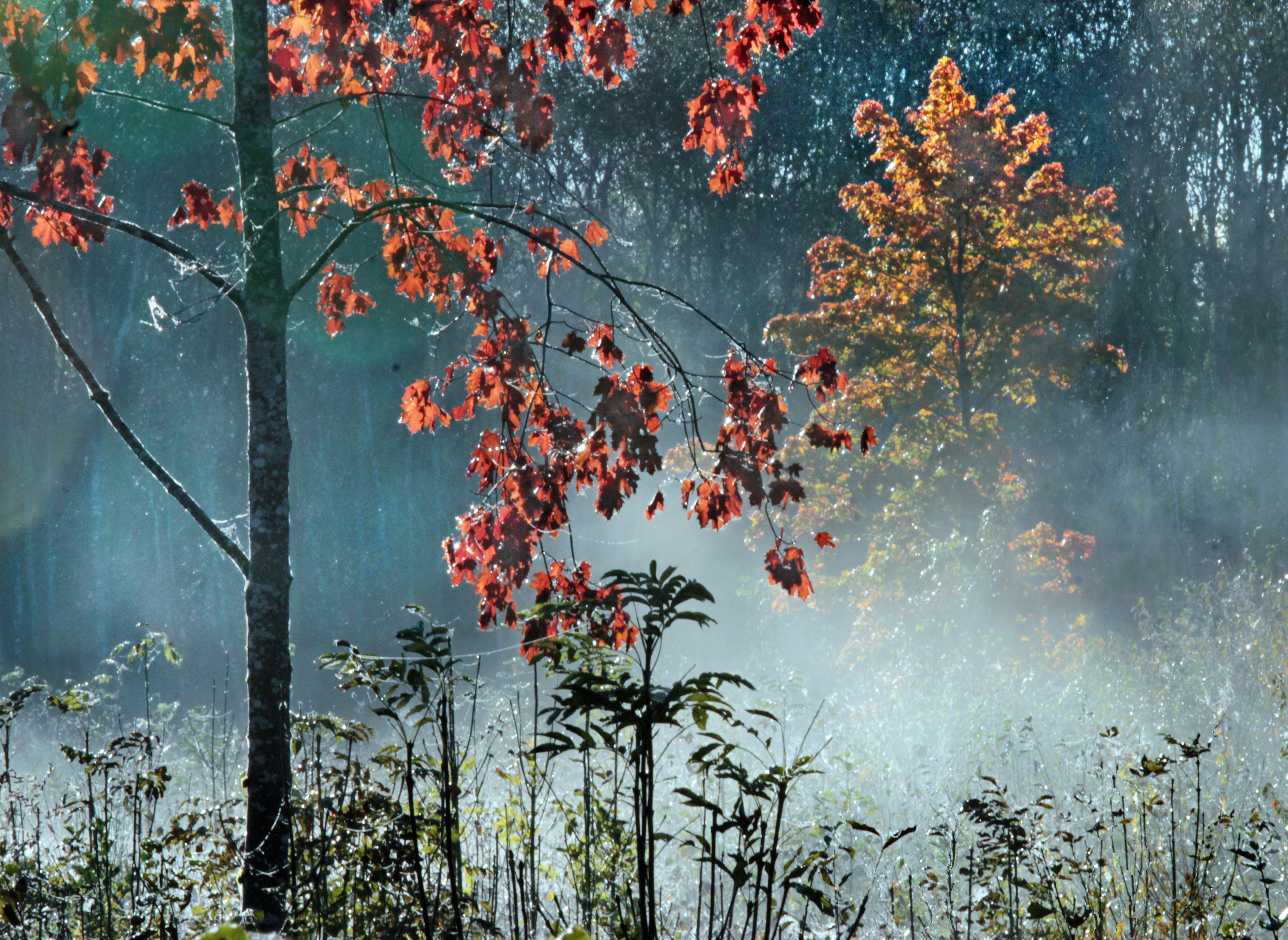 Maple tree with red leaves in the morning mist.Western Estonia